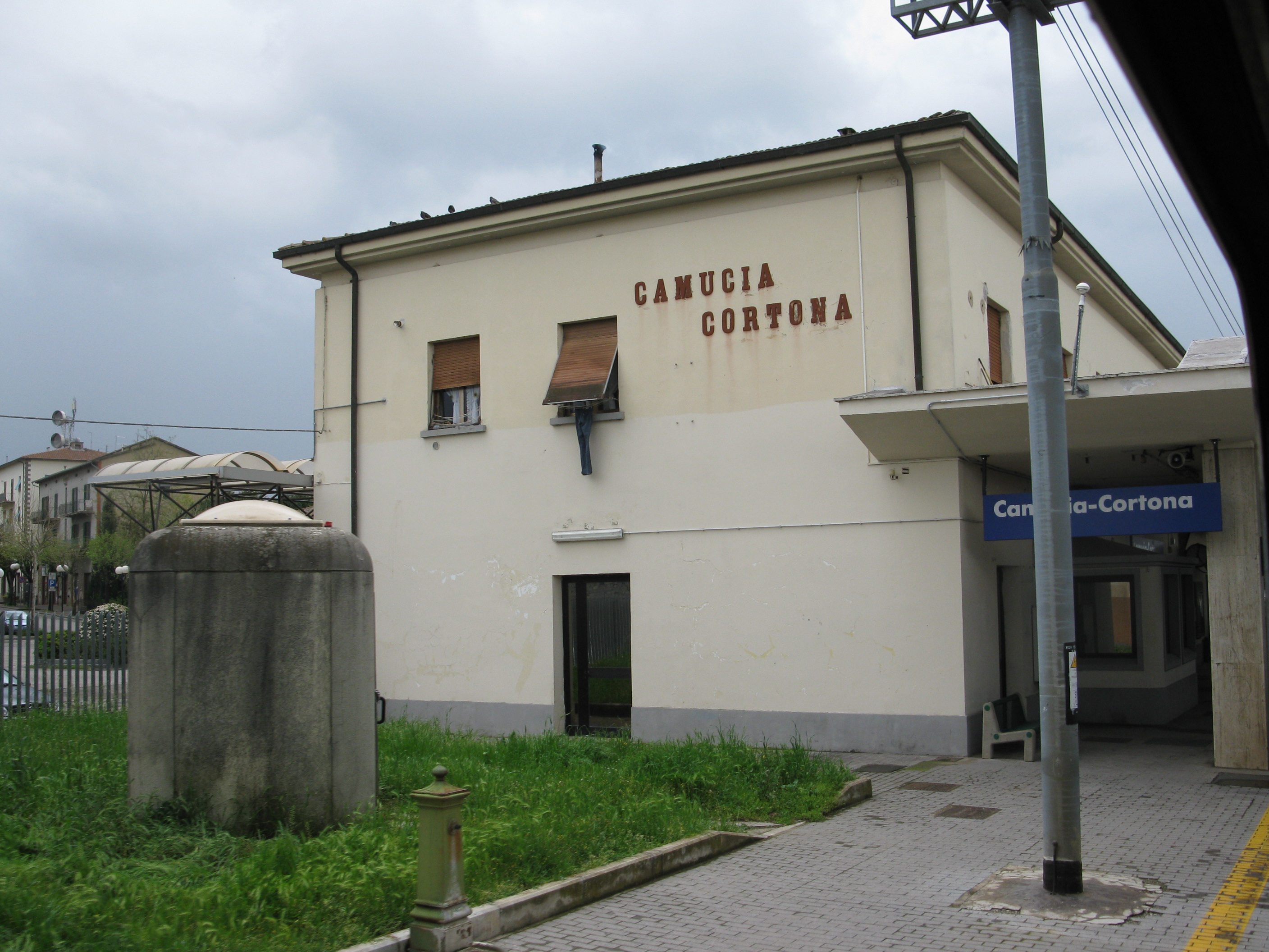 Camucia-Cortona railway station, station building.